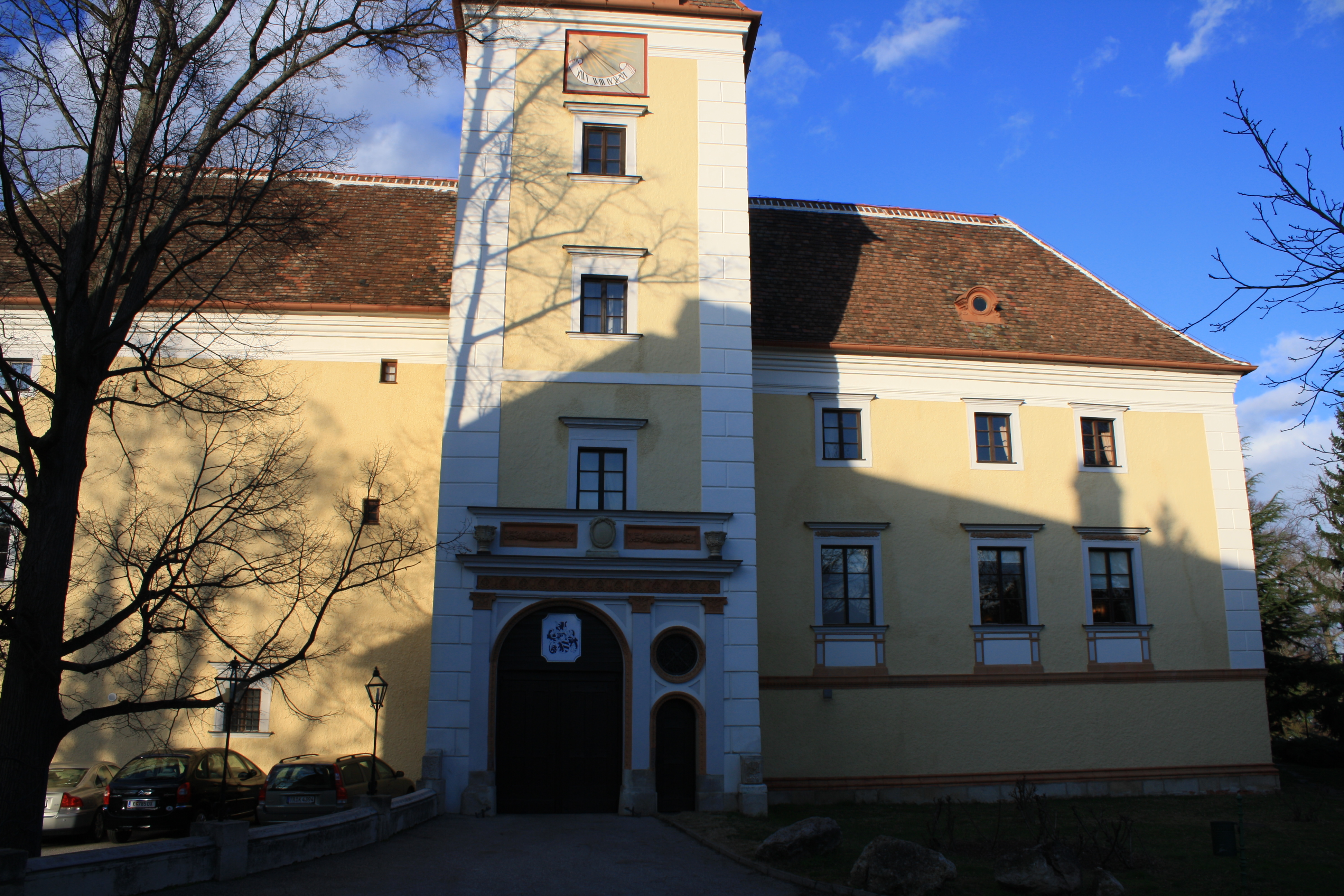 Schloss Weikersdorf in Baden bei Wien, Lower Austria